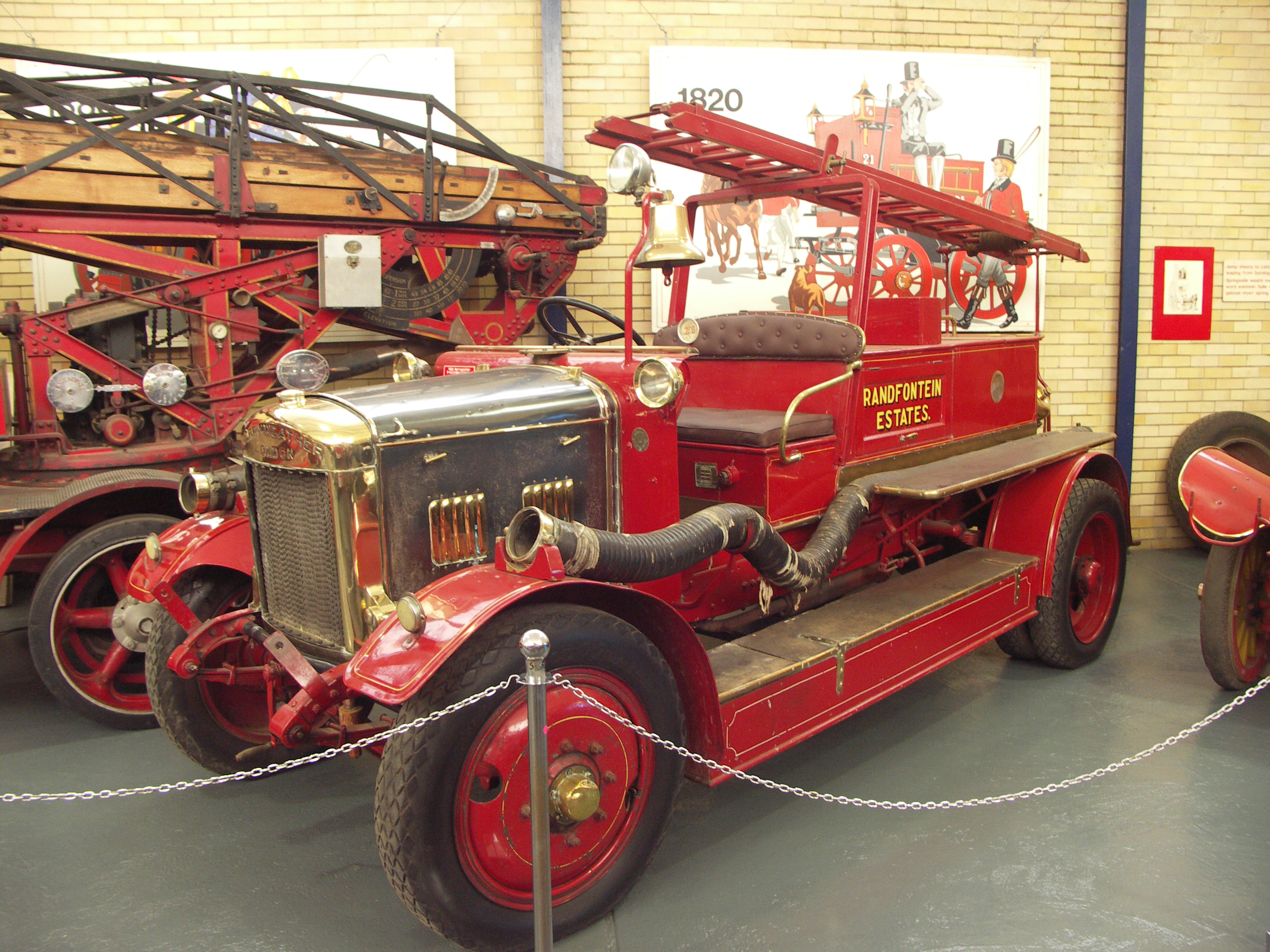 1294 Merryweather 3 cylinder circular pump unit The James Hall museum of Transport, Johannesburg, South Africa